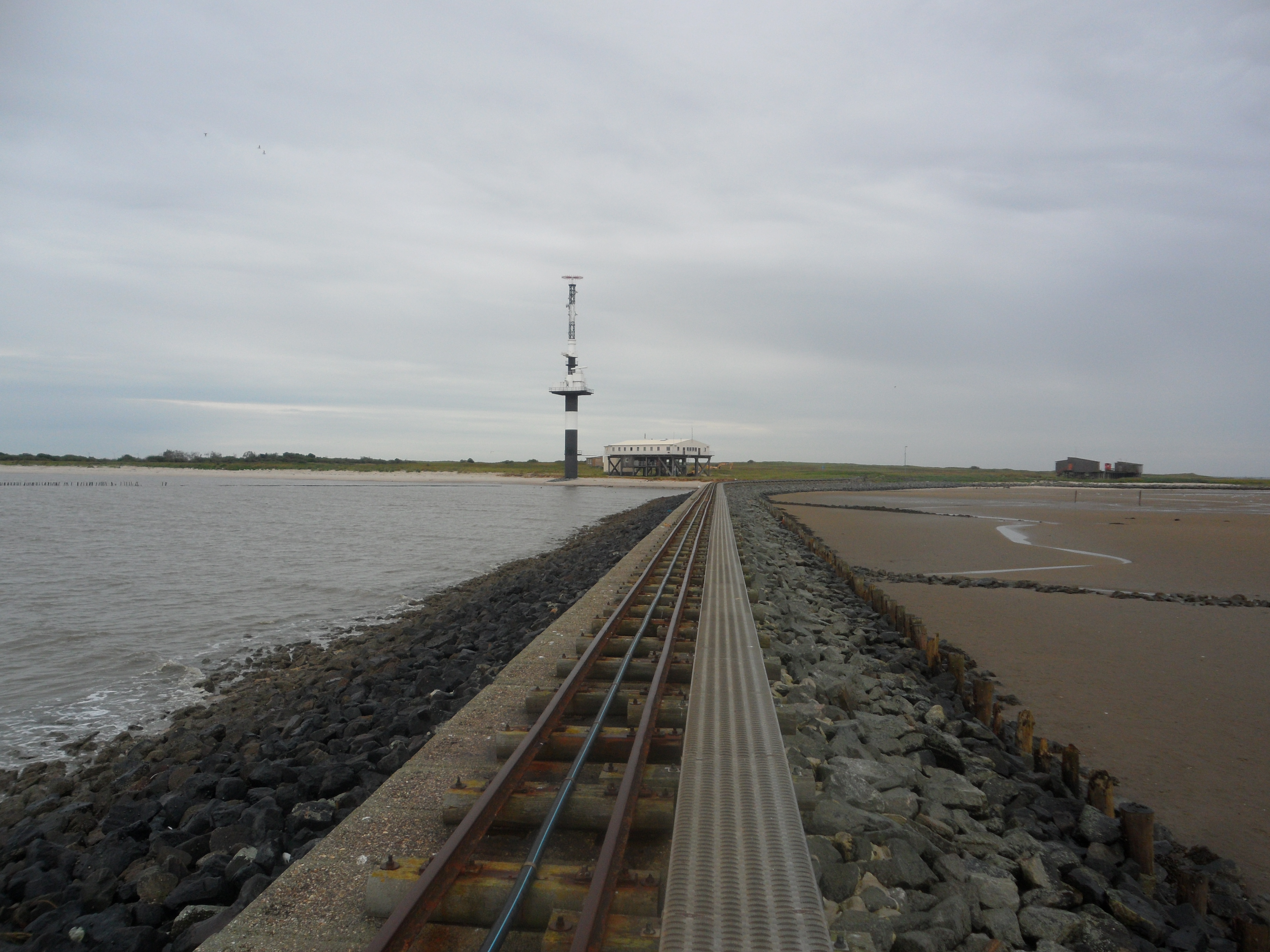 Rails of the narrow-gauge railway on island Minsener Oog